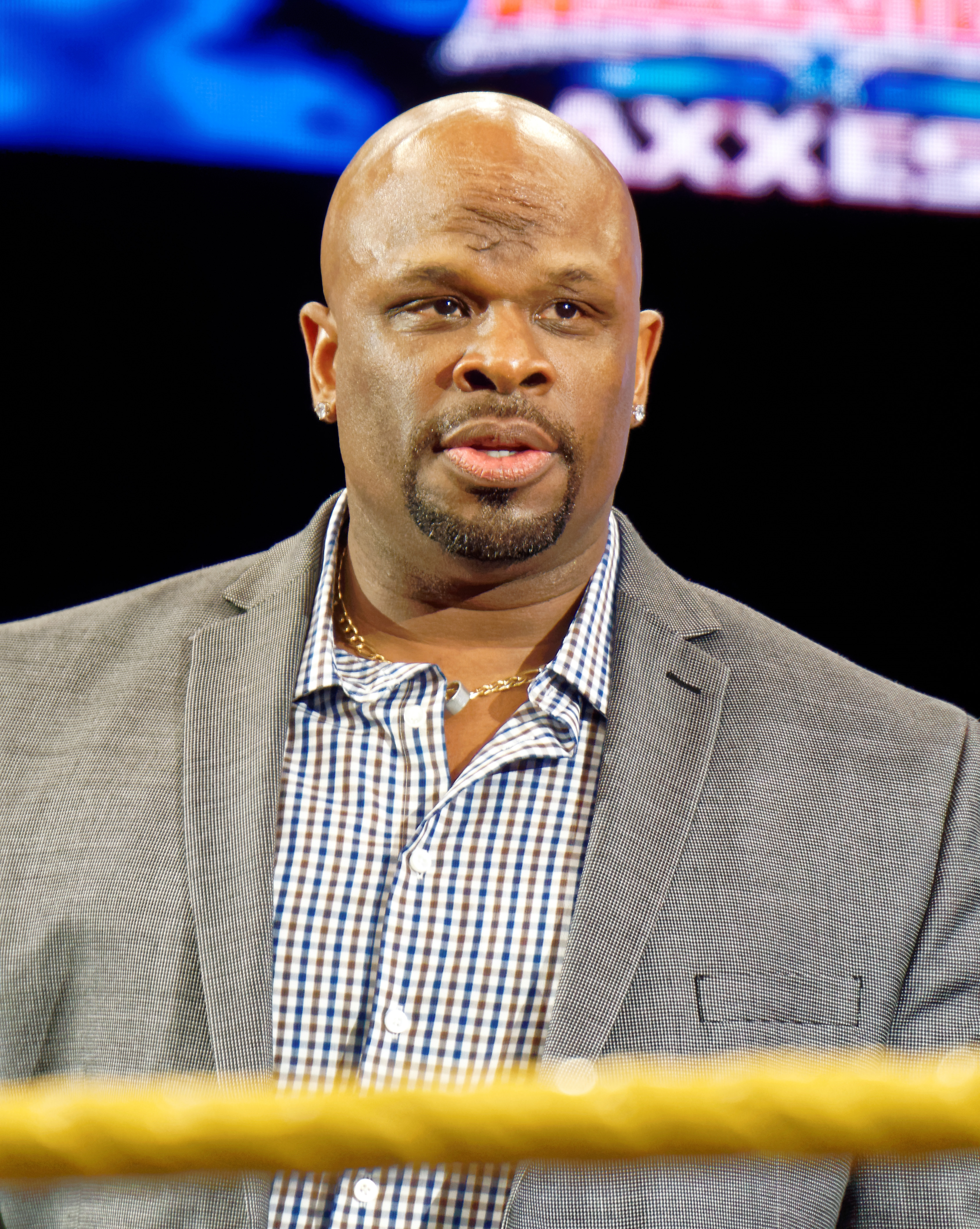 D-Von Dudley at WrestleMania 32 Axxess in April 2016.